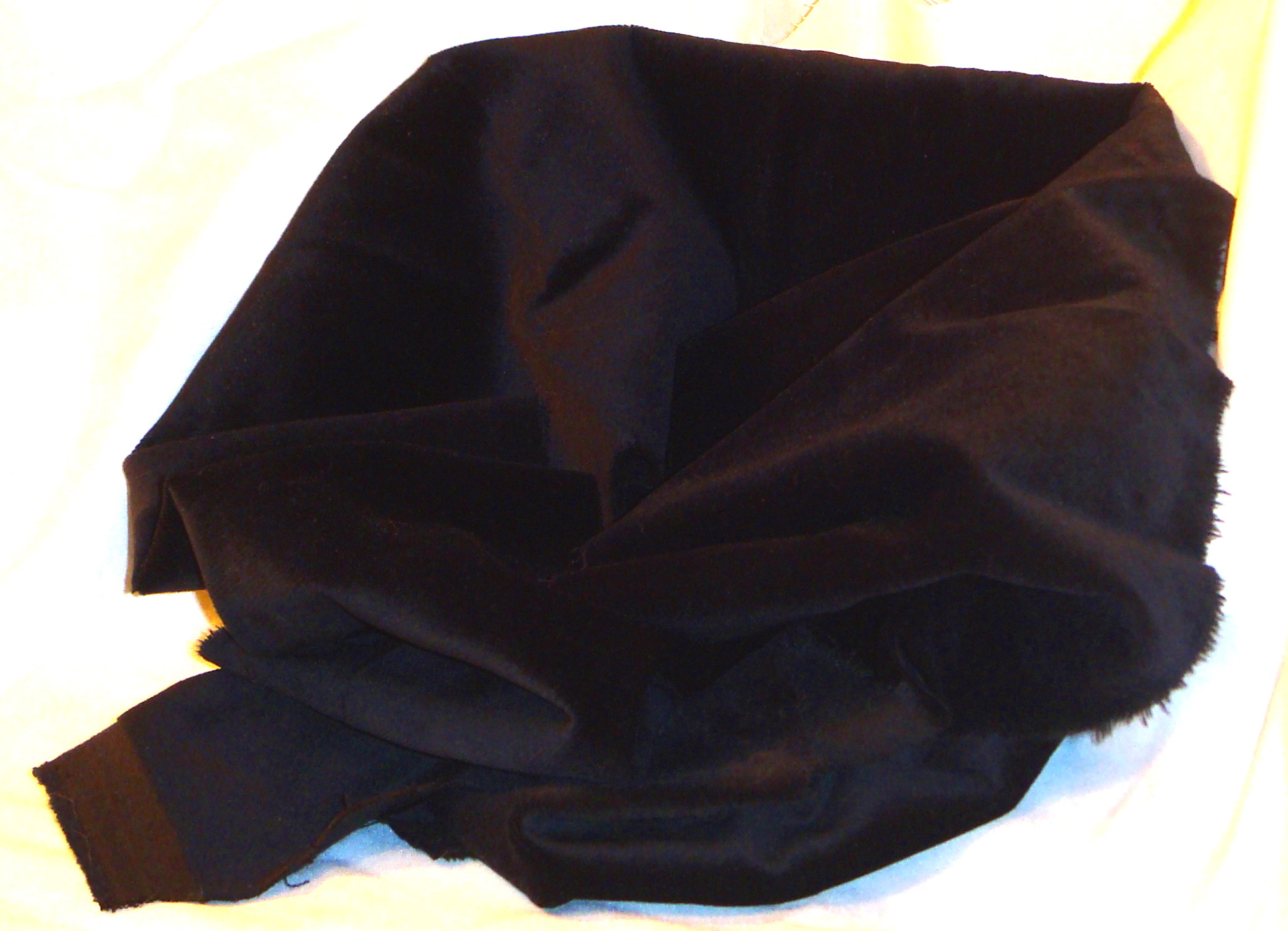 Swatch of black cotton decorater fabric used in drapery.